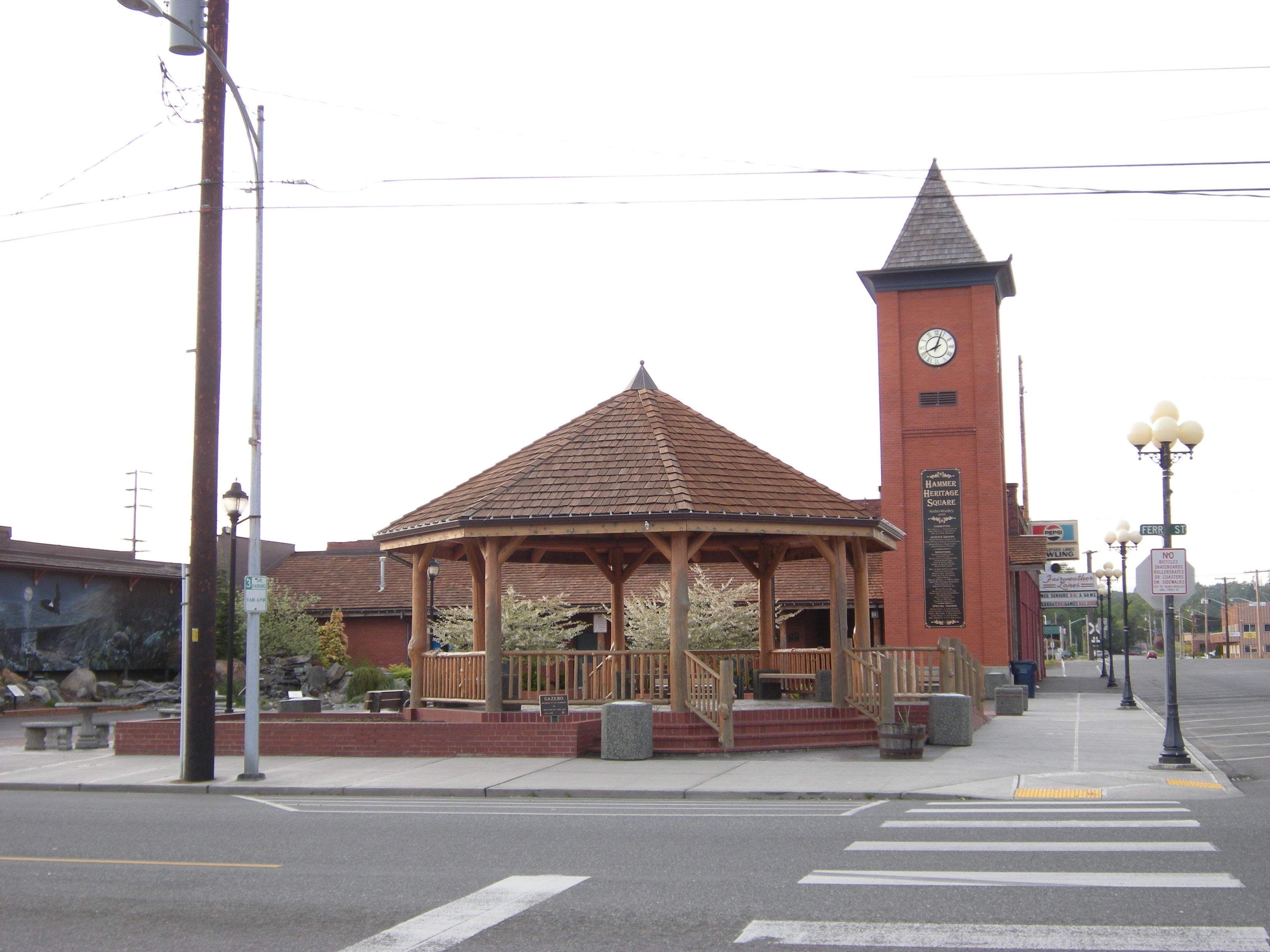 Hammer Heritage Square, Sedro-Woolley, Washington, USA.